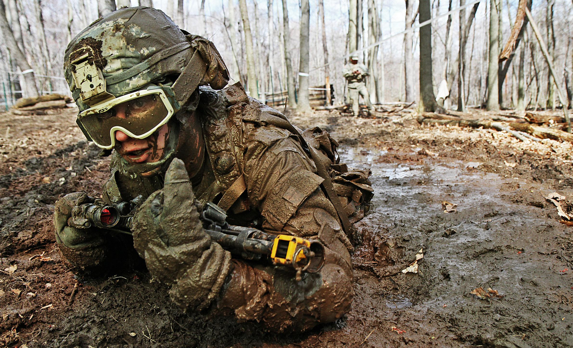 Crawling through mud, Pvt. Charles Shidler, Alpha Company, Special Troops Battalion, 37th Infantry Brigade Combat Team, Ohio National Guard, searches for the next covered fighting position during individual movement techniques training at the Camp Ravenna Joint Maneuver Training Center, Ravenna, Ohio, April 17. The IMT is just one of more than 200 common training tasks that Shidler, as well as about 3,600 other soldiers of the 37th brigade, must complete before they are scheduled to deploy to Afghanistan in fall 2011 in support of Operation Enduring Freedom.